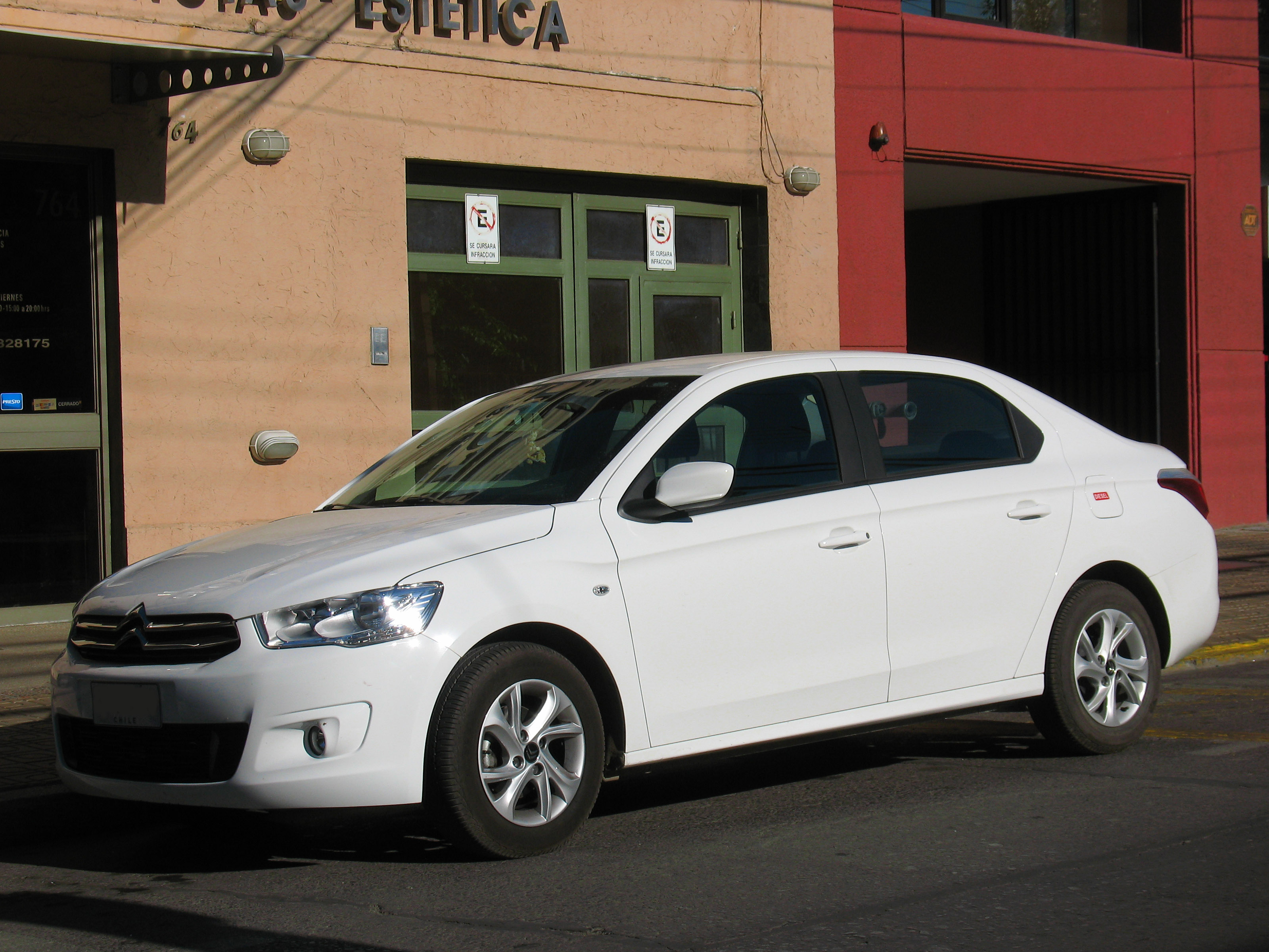 Citroen C-Elysee 1.6 HDi Seduction 2013